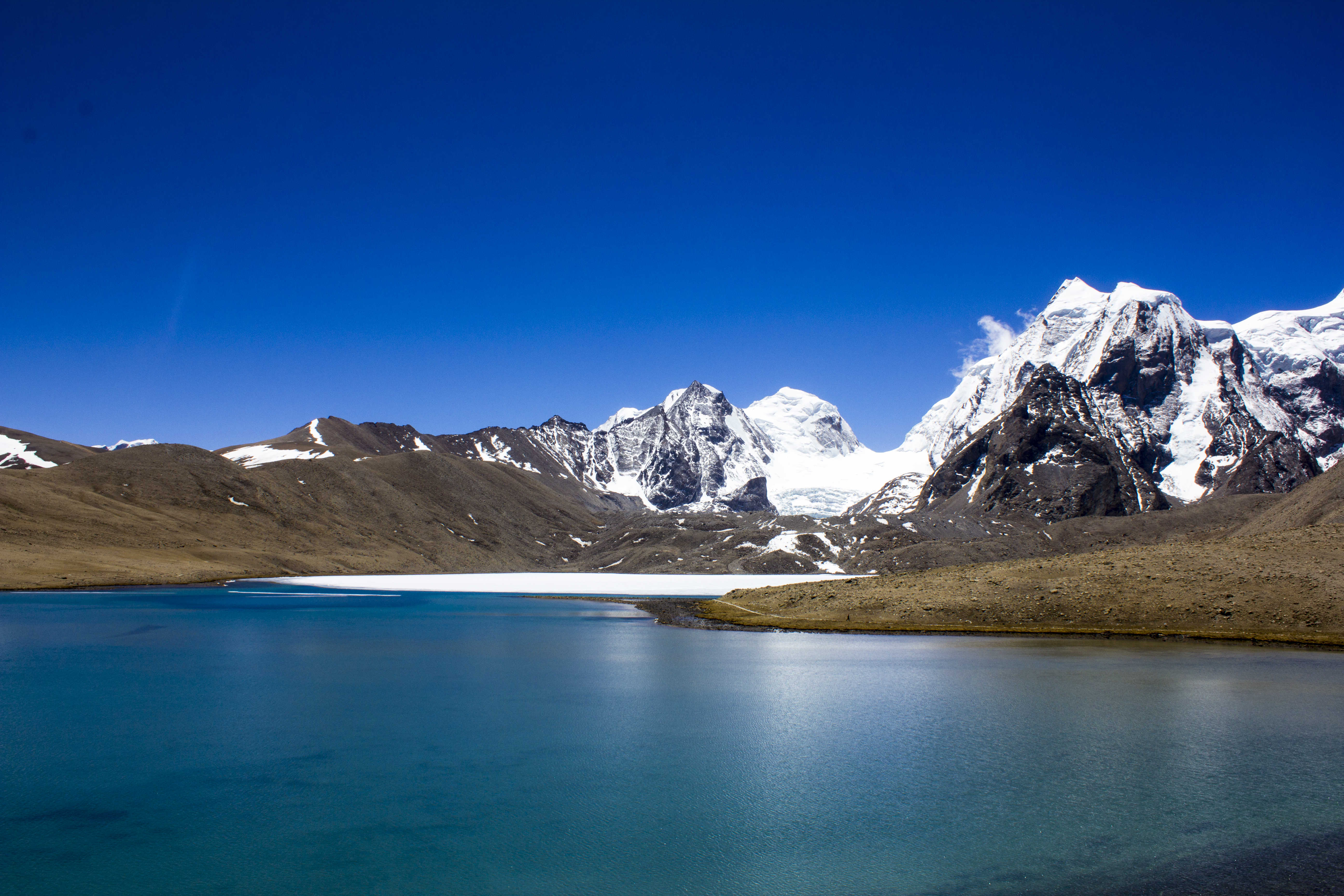 Gurudongmar Lake in Sikkim.